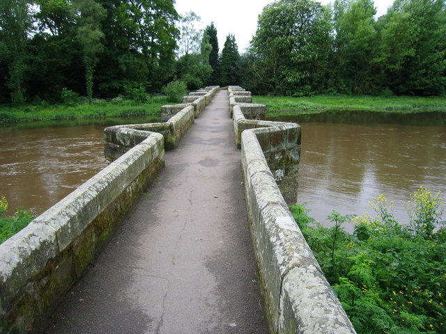 Essex Bridge Great Haywood. The longest remaining packhorse bridge in Great Britain. It crosses the River Trent and leads to the Late Earl of Lichfield's Shugborough Hall.